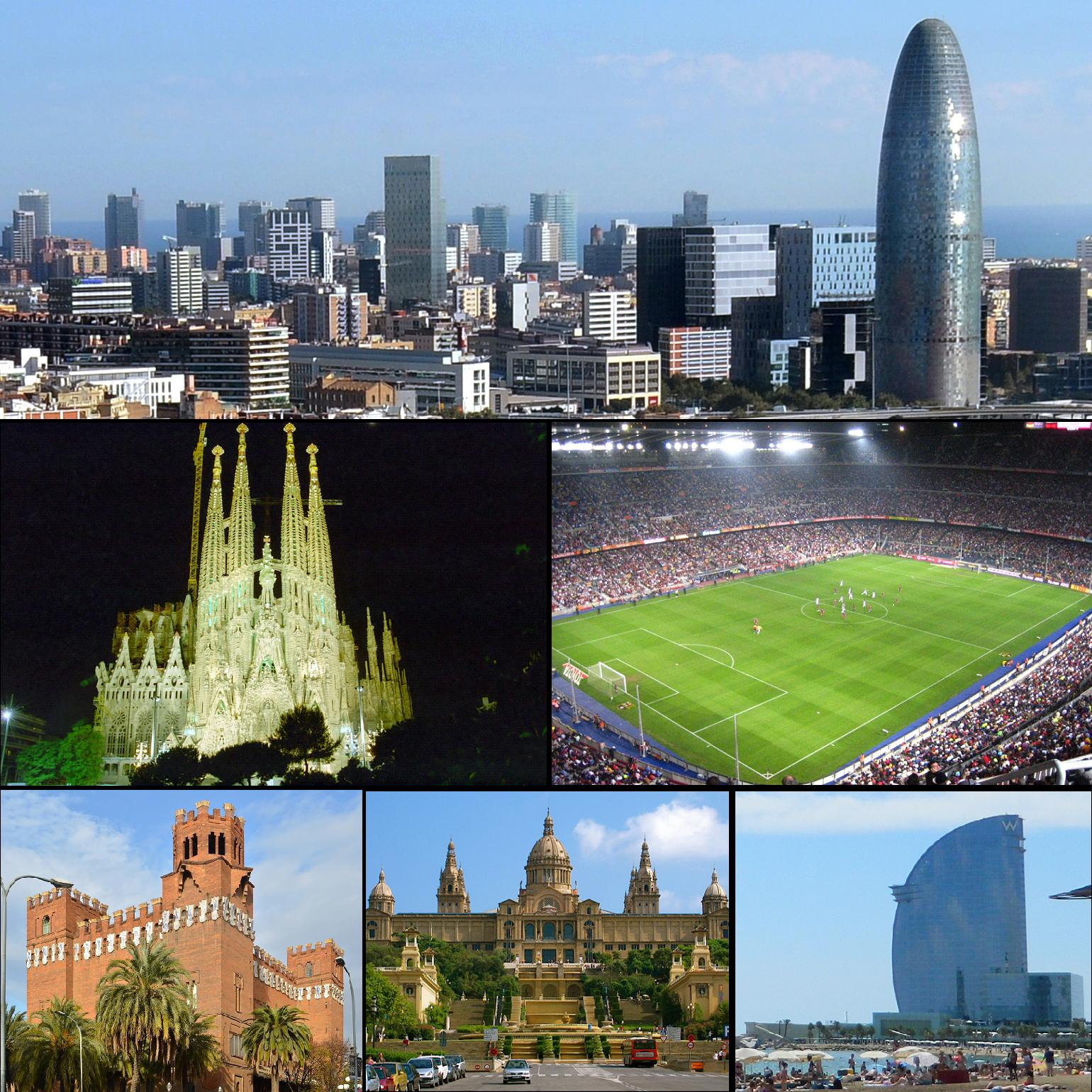 Central business district of Barcelona (22@), Sagrada Família, Camp Nou stadium, Castle of the Three Dragons, Palau Nacional, W Barcelona hotel and beach.